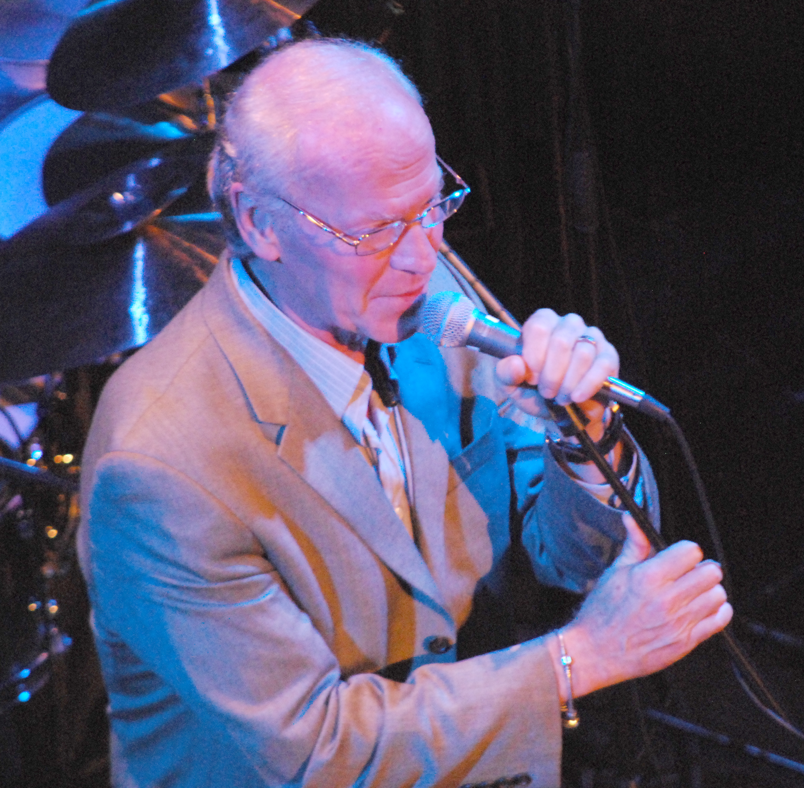 Paul McCandless, Concert with Oregon, Treibhaus Innsbruck 2010